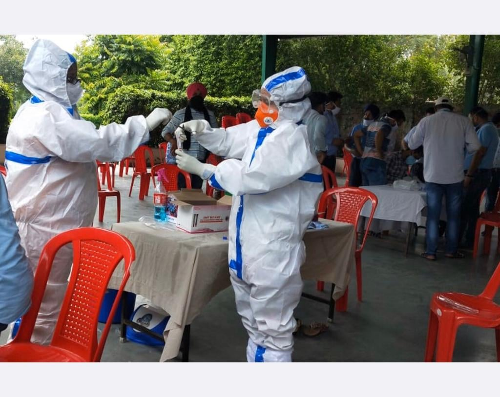 COVID testing in Barnala District